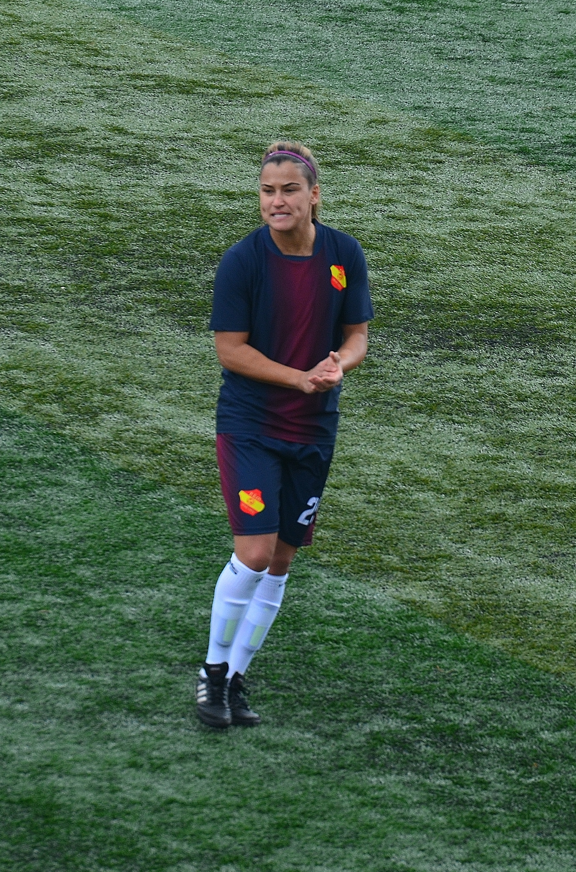 Aylin Yaren playing for Trabzon İdmanocağ (women) in the 2015-16 season